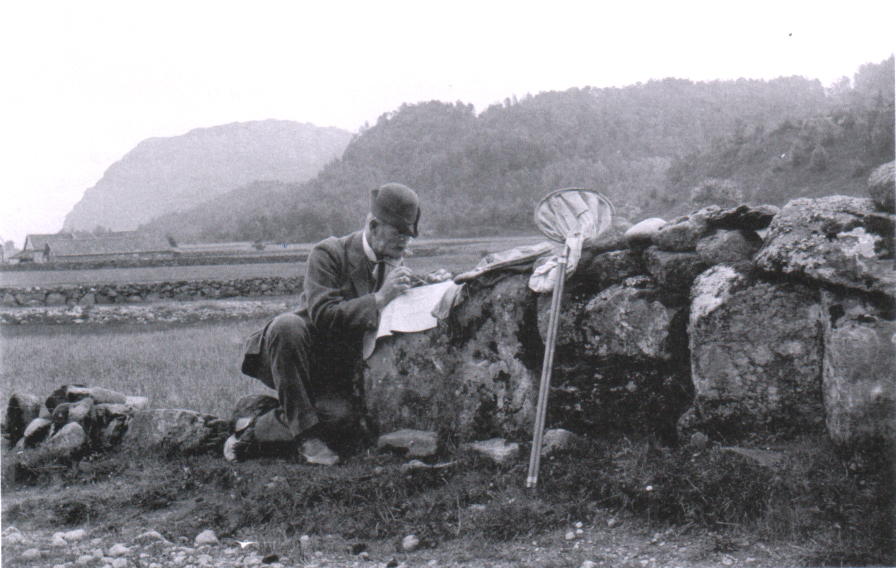 Tor Helliesen (1855-1914) Entomologist from Norway. Tor Helliesen